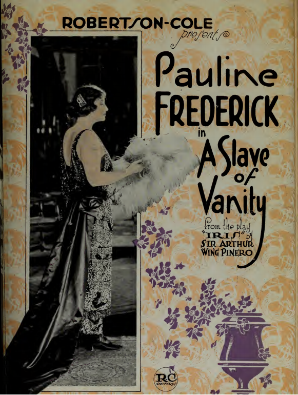 Ad with Pauline Frederick in A Slave of Vanity (1920) directed by Henry Otto.